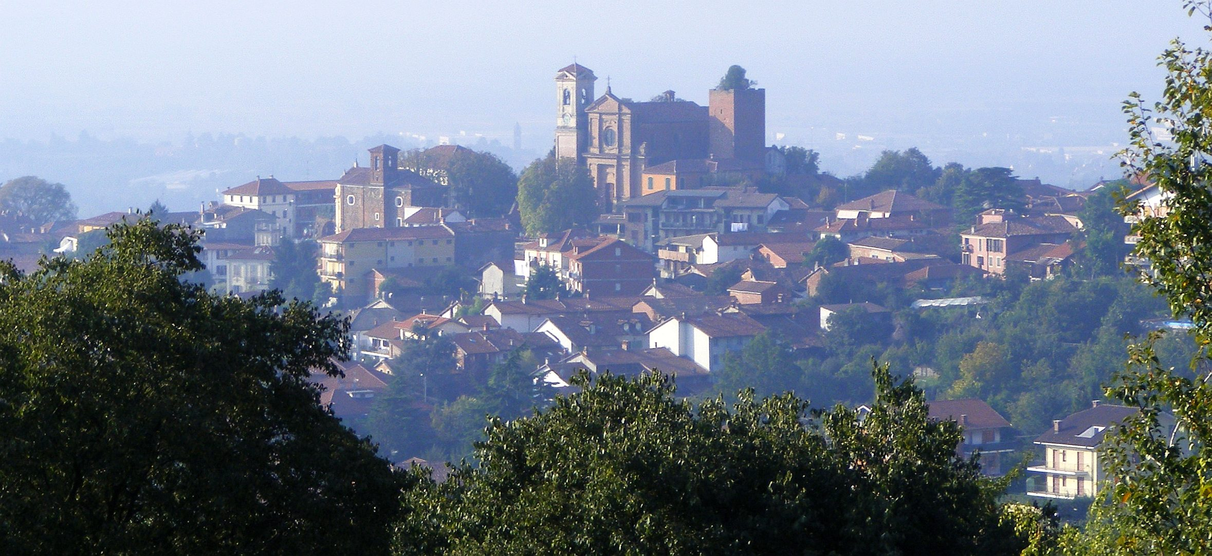 Pecetto (TO, Italy): panorama